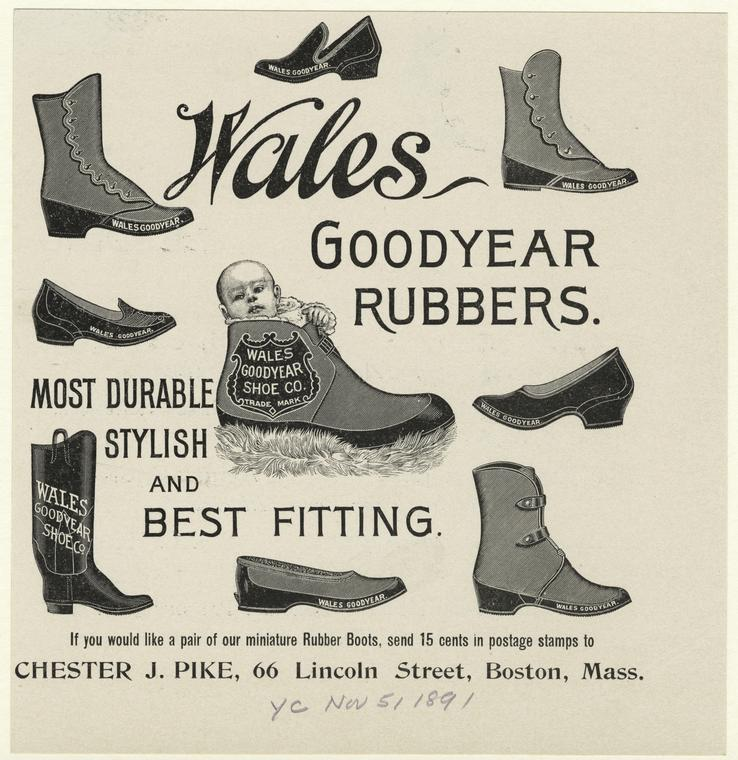 Image Title: Wales Goodyear rubbers. Published Date: 1891 Specific Material Type: Prints Item Physical Description: 1 print : b&w ; 14 x 14 cm. (5 1/2 x 5 1/4 in.) Notes: Printed on image: "Wales Goodyear Shoe Co." "Most durable, stylish and best fitting." "If you would like a pair of our miniature rubber boots, send 15 cents in postage stamps to Chester J, Pike, 66 Lincoln Street, Boston, Mass." Written on border: "Nov. 5, 1891." Original Source: From Youth's companion. (Boston : Perry Mason Co.,) .